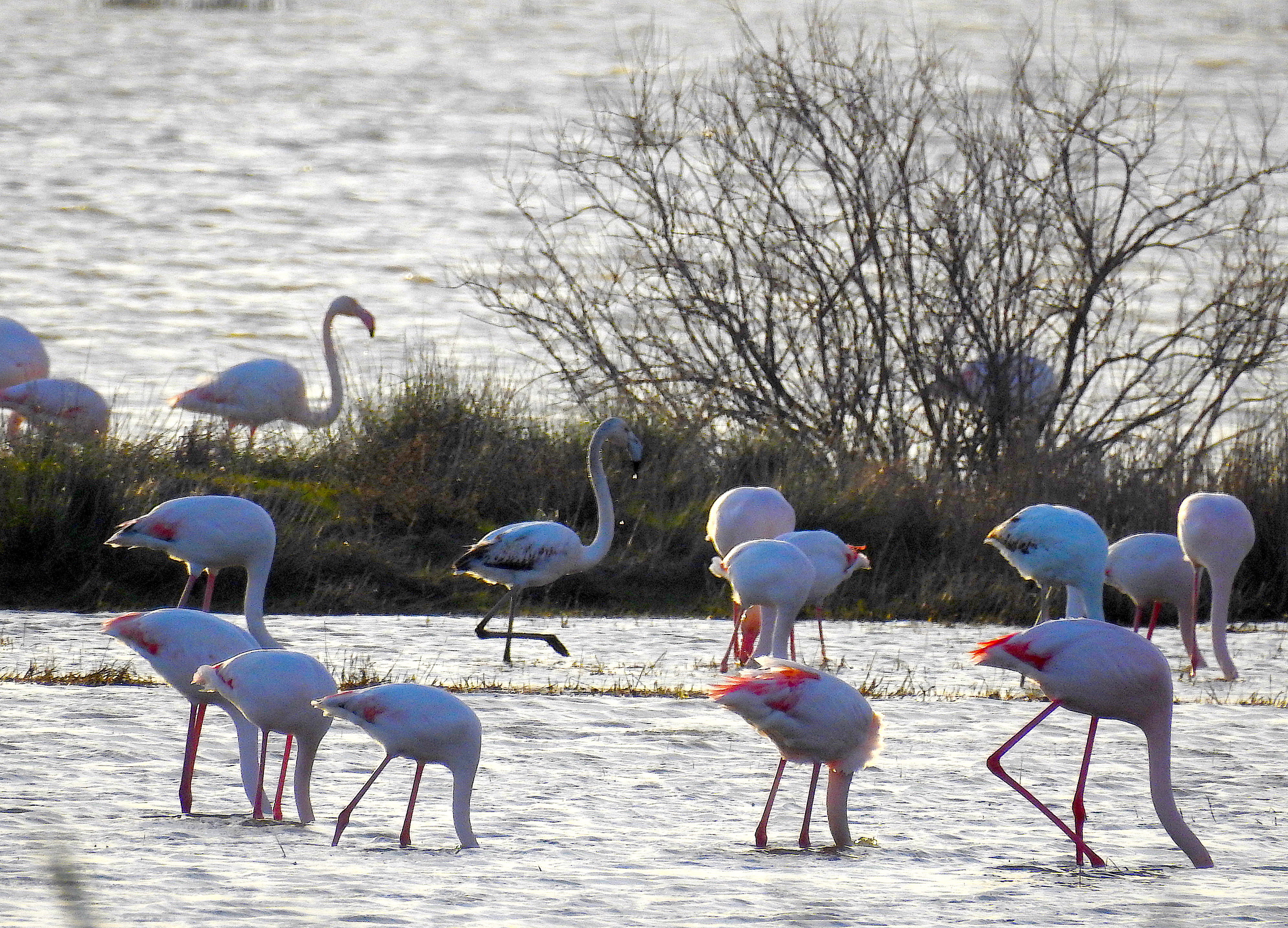 This is a photography of Natura 2000 protected area with ID GR4110006